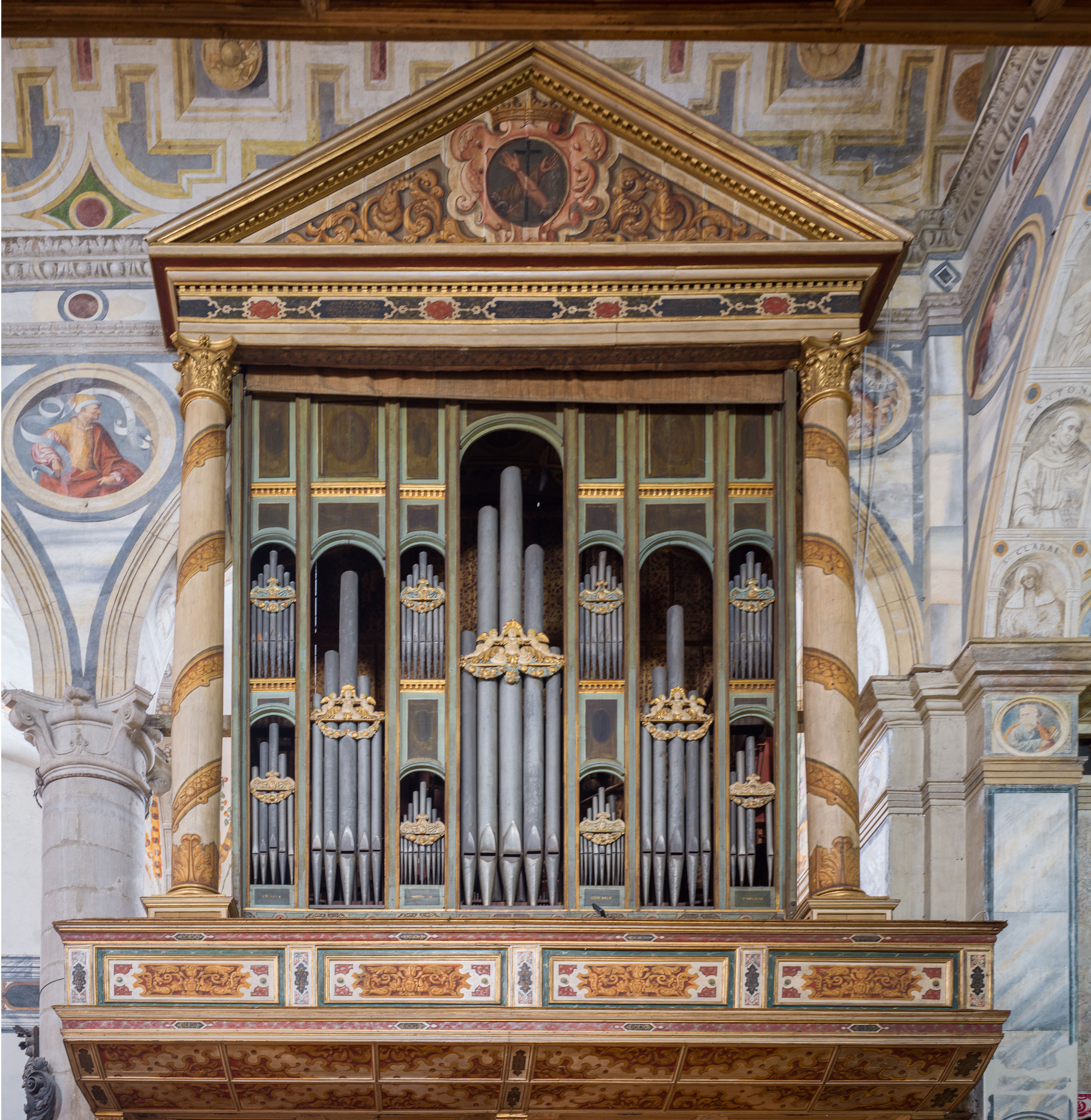 Organ Antegnati in the Chiesa di San Giuseppe church in Brescia.